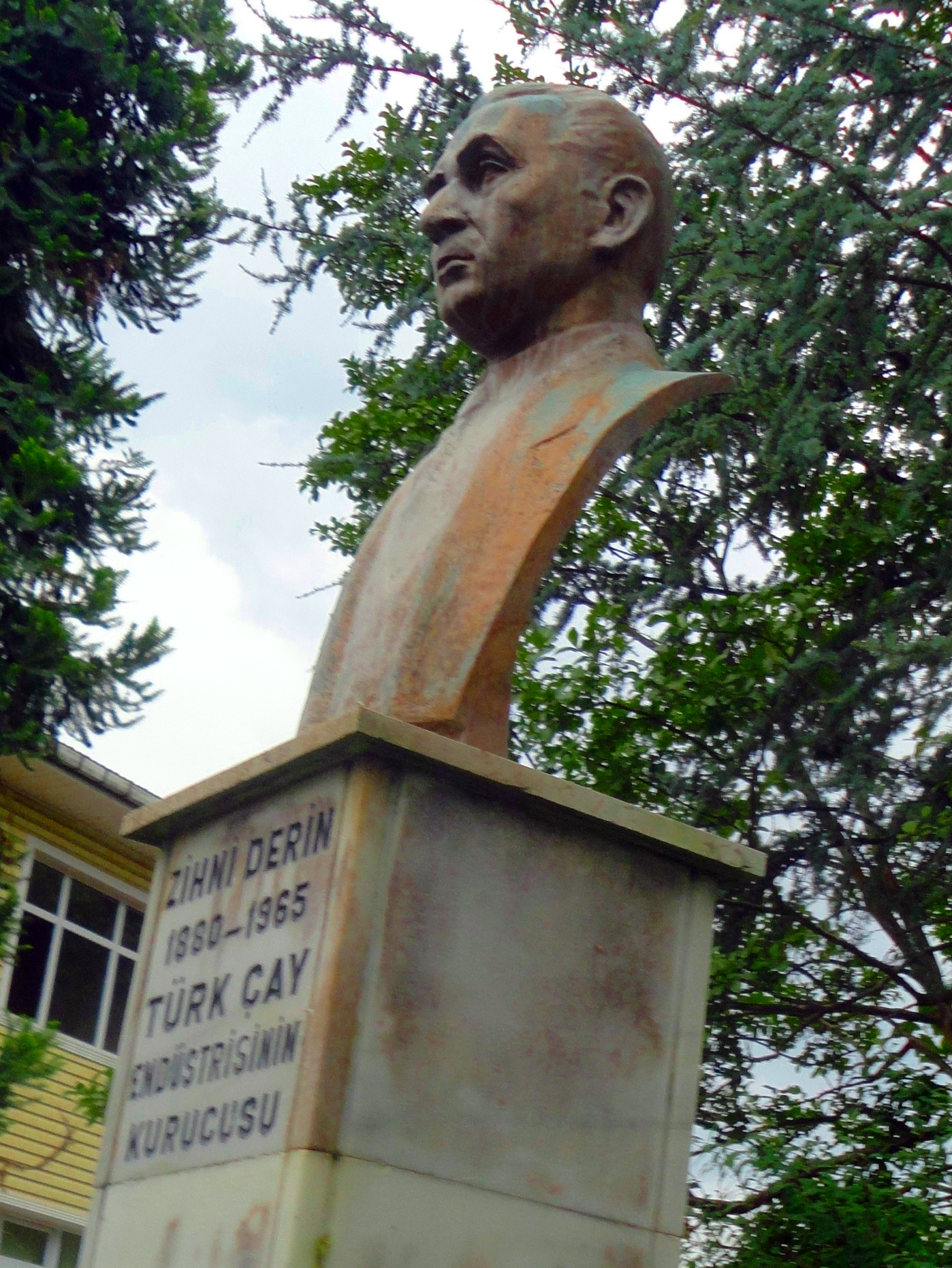 Zihni Derin bust at Rize Botanic Garden